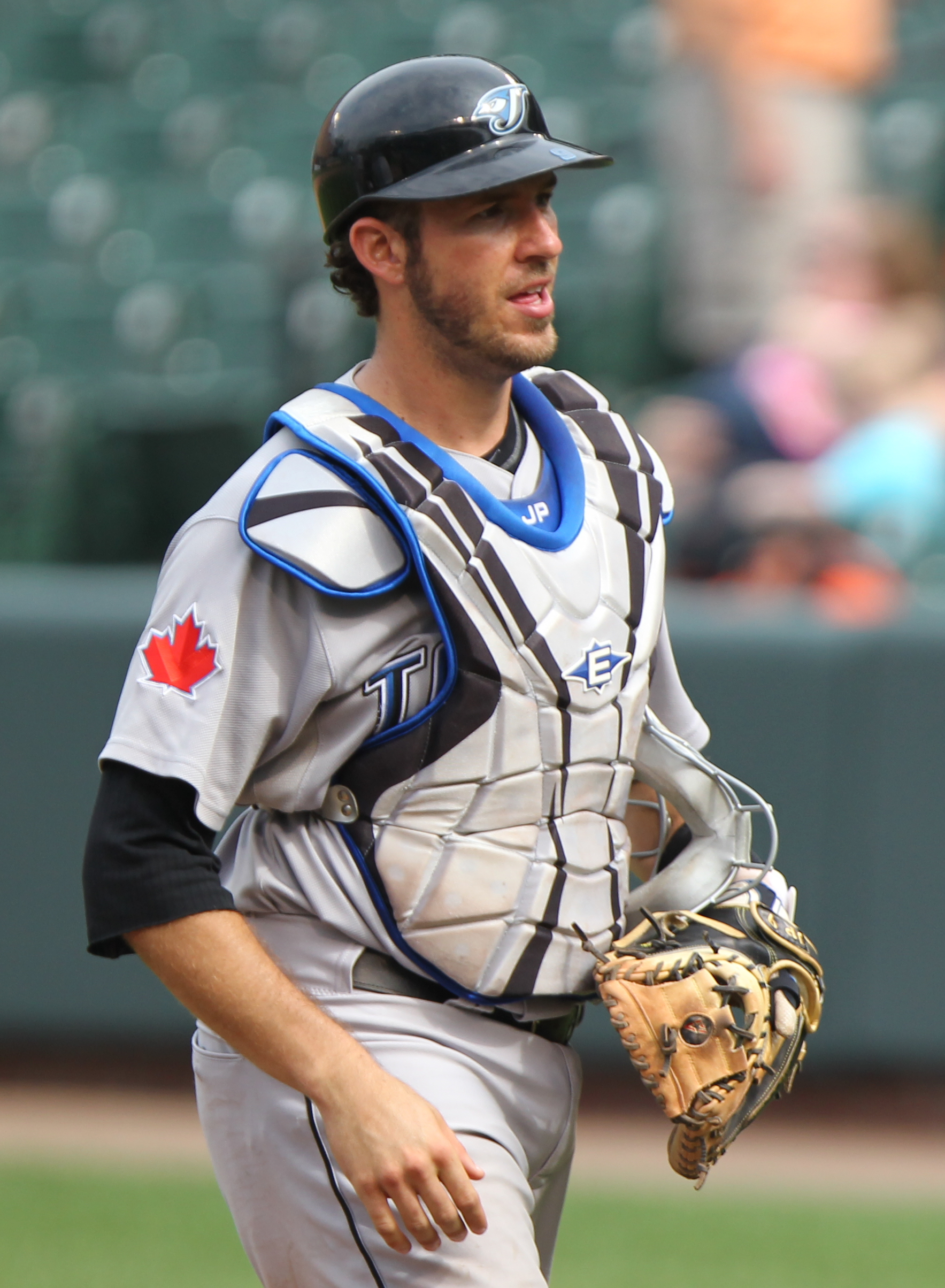 Blue Jays at Orioles September 1, 2011